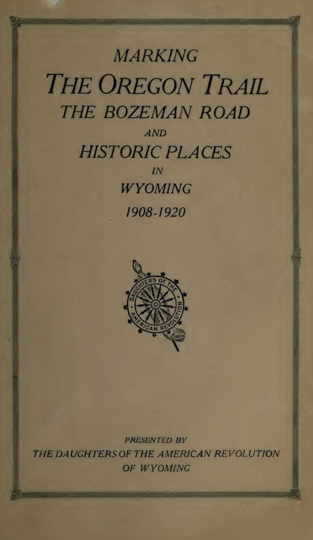 Title page from: * Hebard, Grace Raymond (1922) Marking the Oregon Trail, the Bozeman Road and historic places in Wyoming 1908-1920, Cheyenne, WY: Daughters of the American Revolution of Wyoming